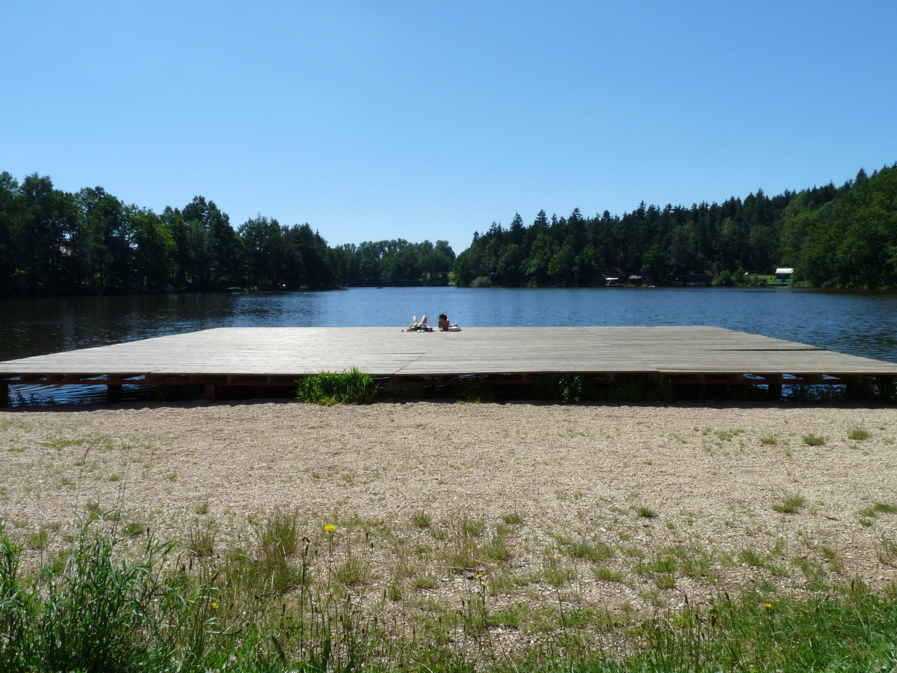 Mrhal pond in Jivno and Hlincová Hora, České Budějovice district, Czech Republic, is a popular place to go swimming. It used to be a quarry.